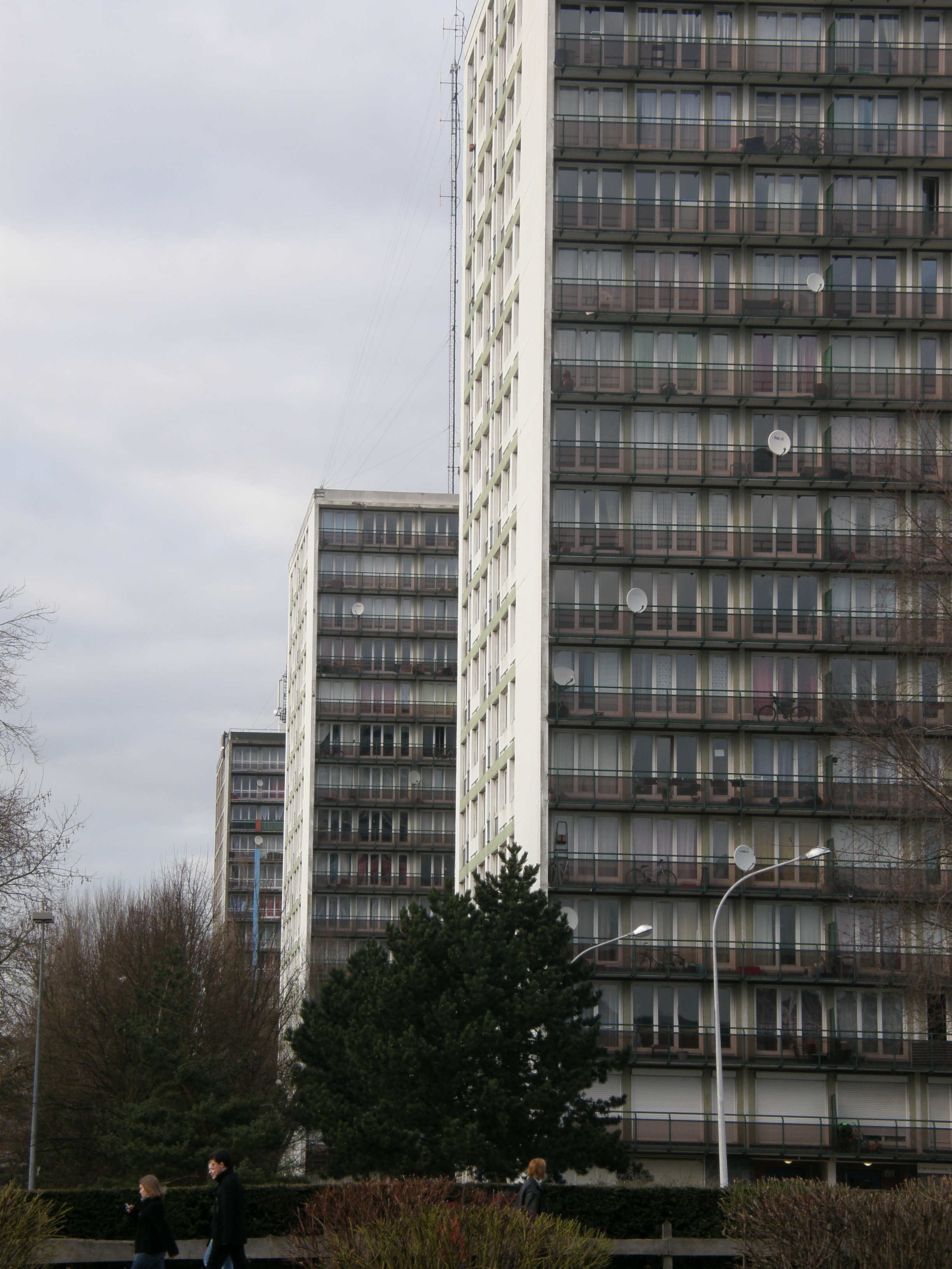 Buildings from the city of Mons en Baroeul